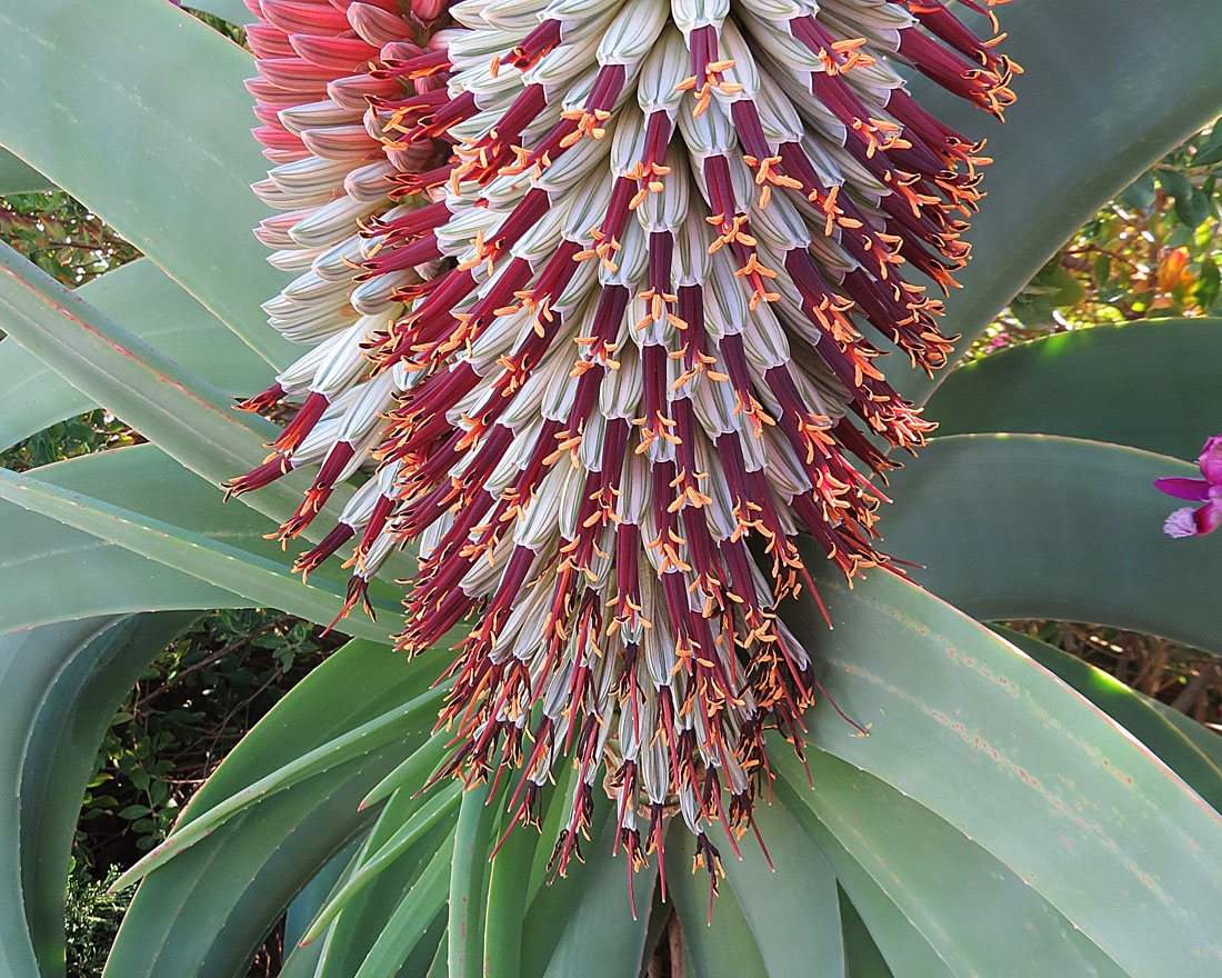 Known in gardening as Tilt-head Aloe as it tends to tilt toward the sun. Native to South Africa where it is known as Spaansaalwyn. Photo from a garden in Goleta, California.